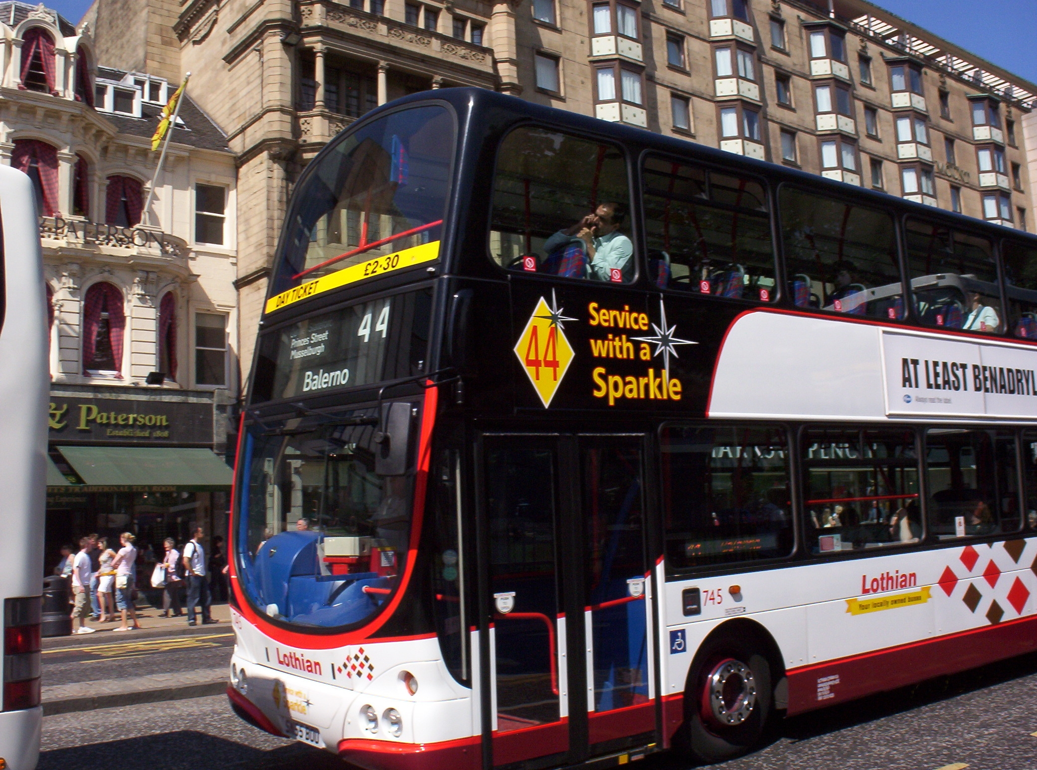 Lothian Buses bus 745, a Volvo B7TL Wrightbus Eclipse Gemini (reg. SN55 BOU) wearing Harlequin livery Route 44 Service with a Sparkle route branding